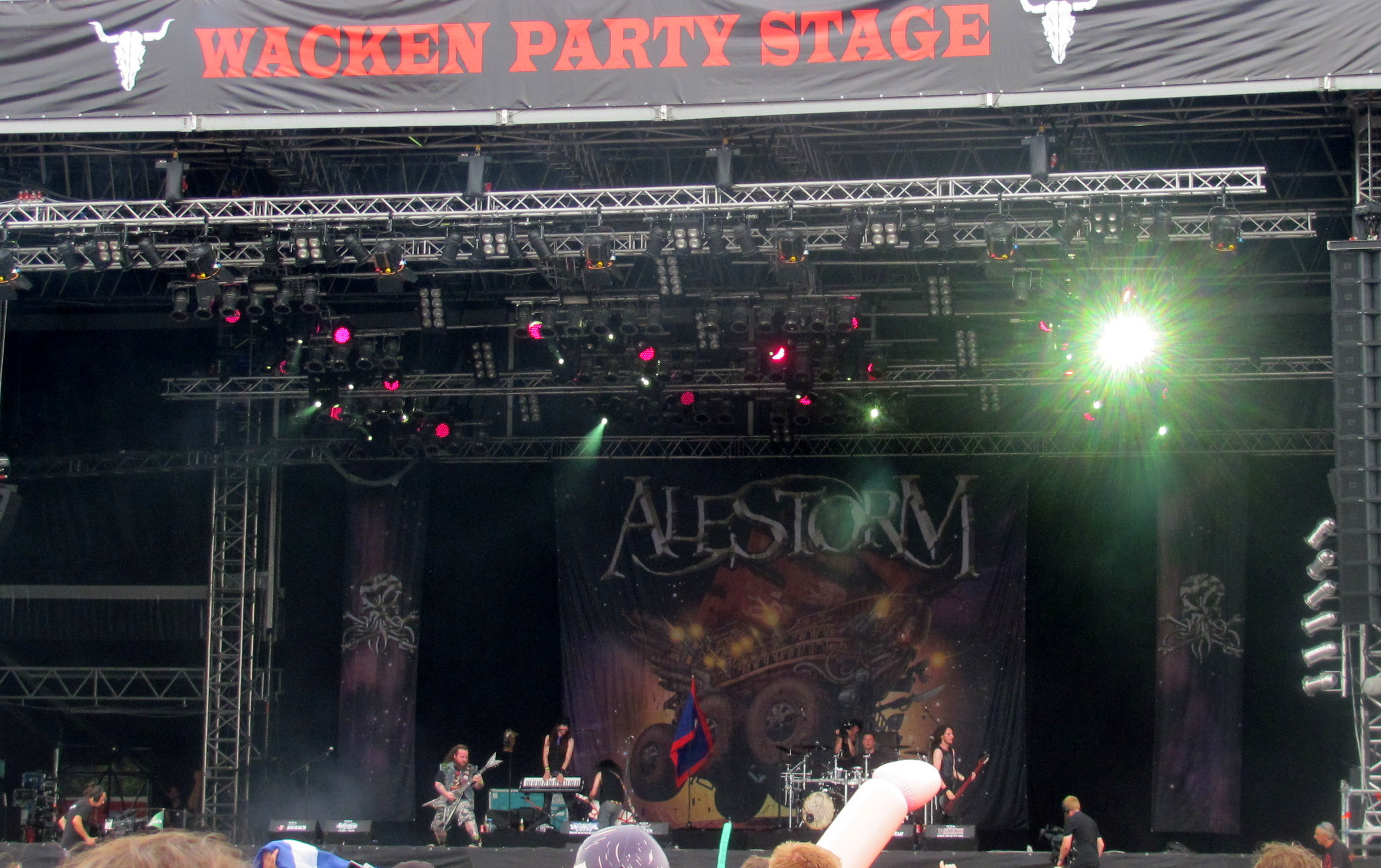 Alestorm at Wacken Open Air 2013